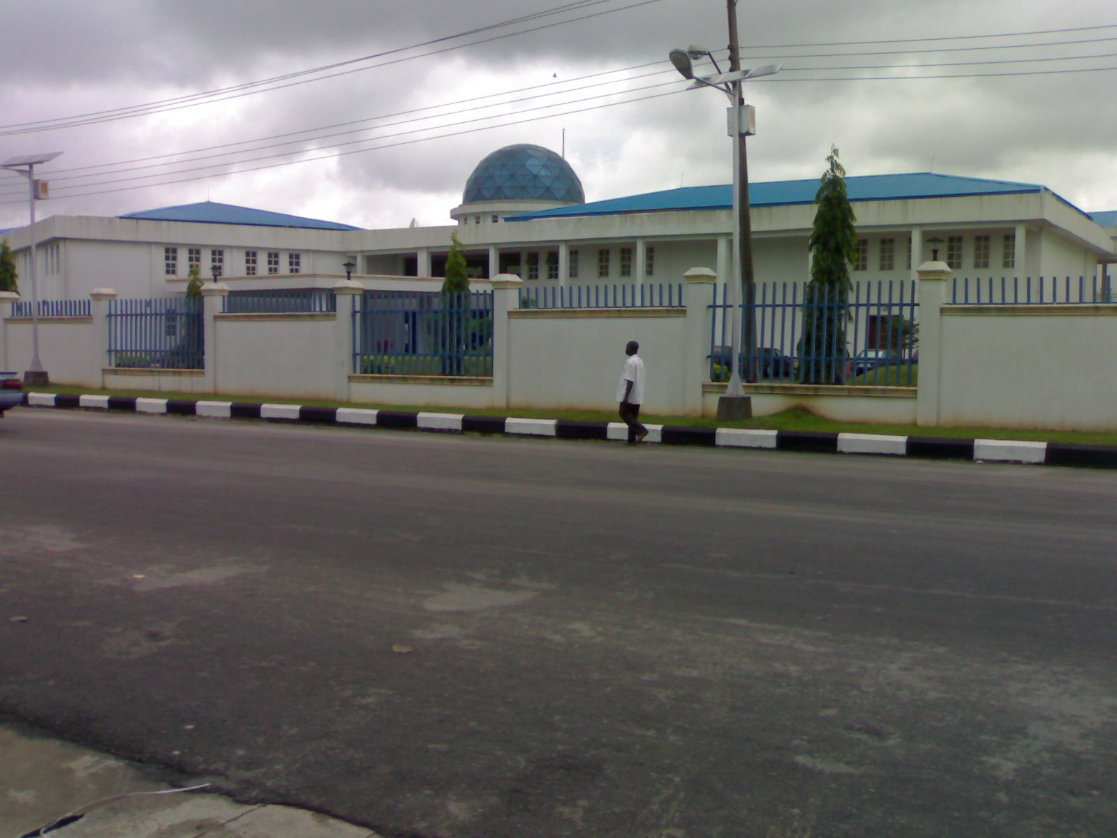 Rivers State House Of Assembly. Along Moscow Road In old Port Harcourt Township, Port Harcourt